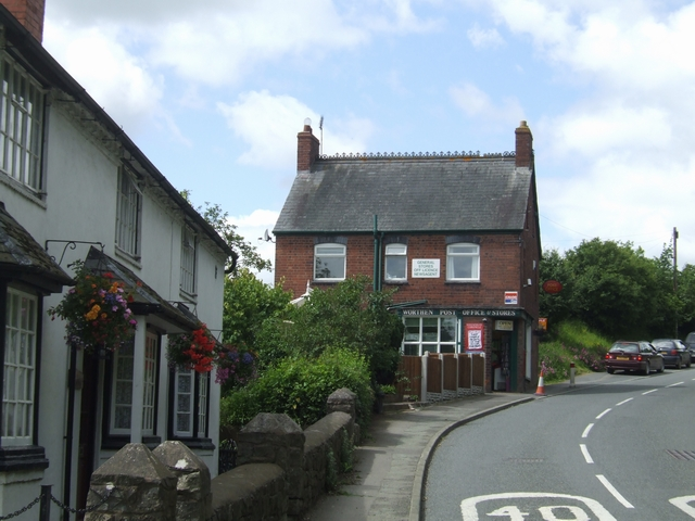 Rural Post Office The only shop for miles!